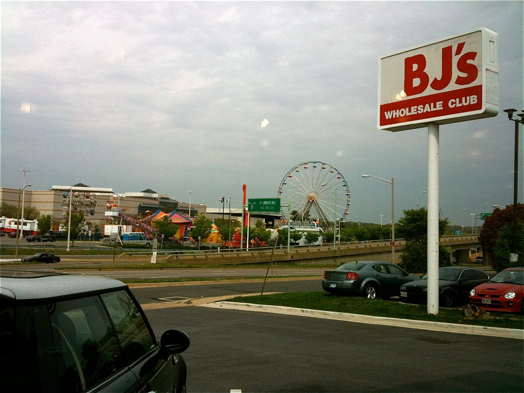 Spin the Wheel